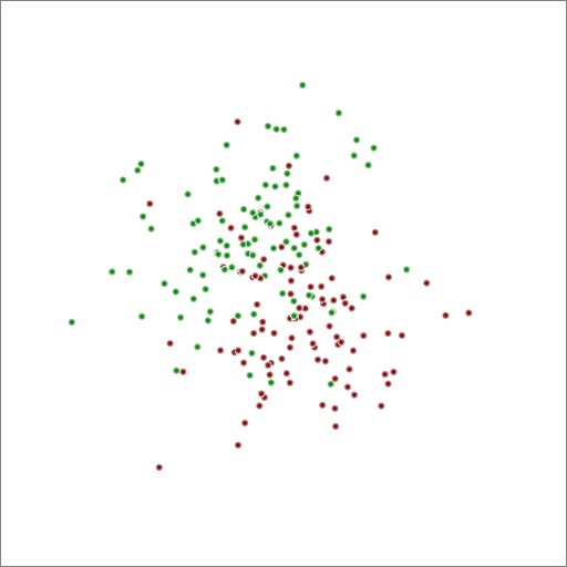 I made this image and I gift it to the public domain